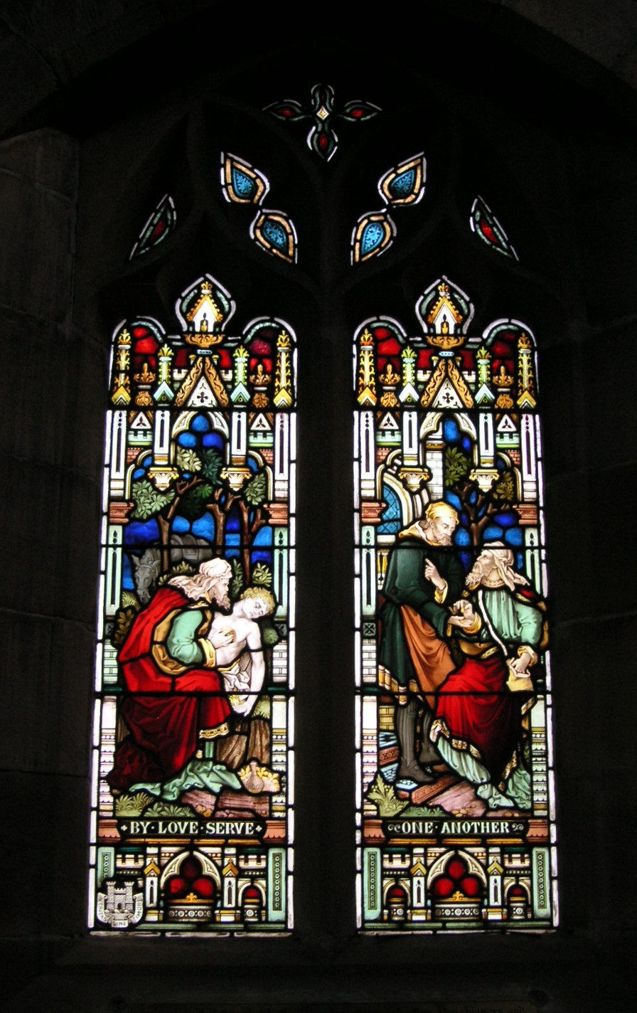 English stained glass in an Australian church